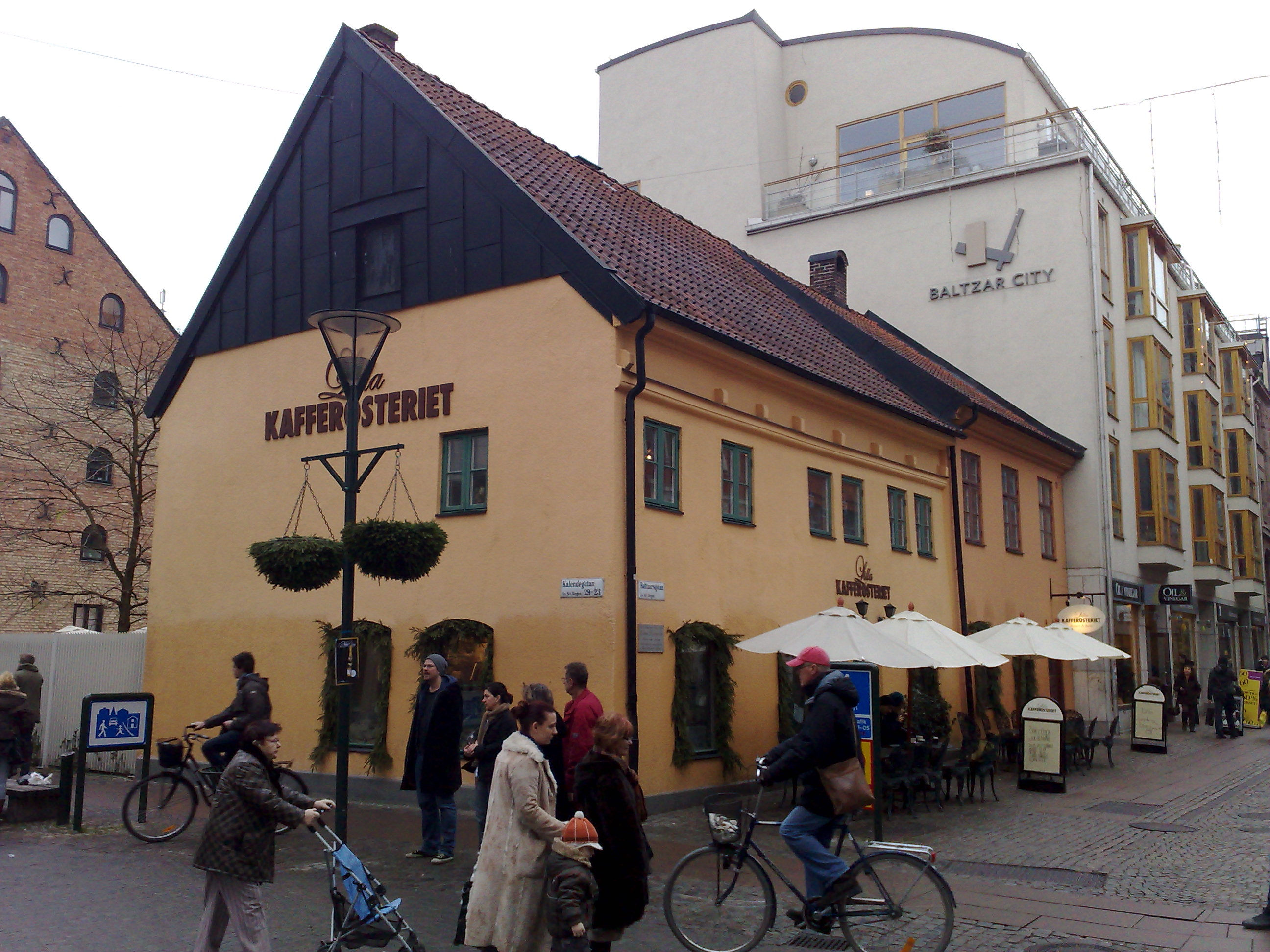 The house of the reformer Claus Mortensen in Malmo city.